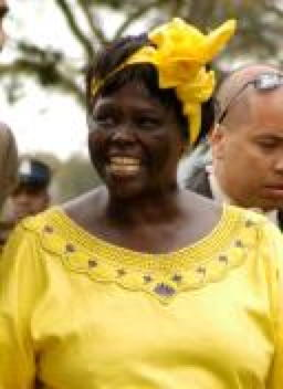 Wangari Maathai in Nairobi, Kenya